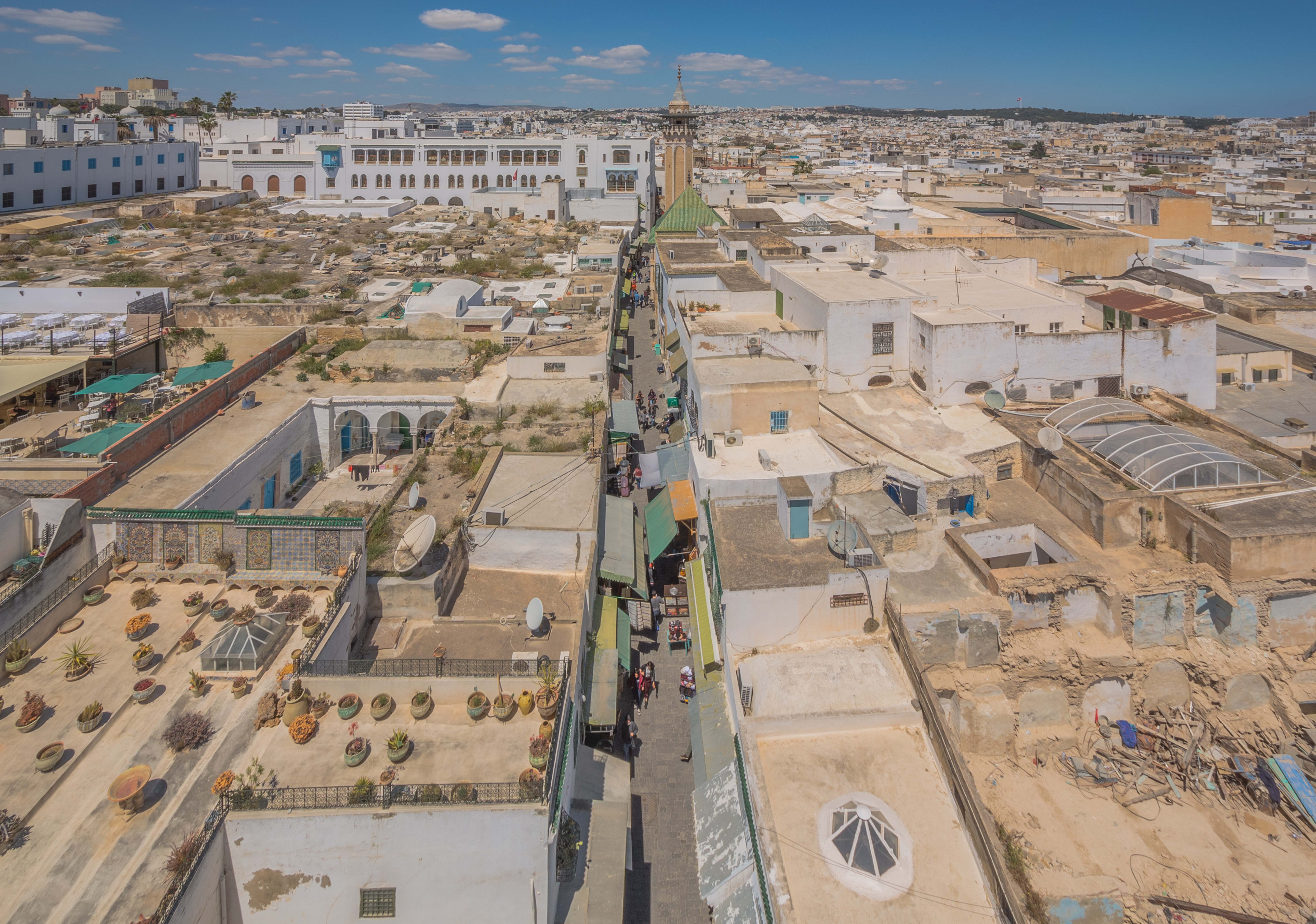 A global view of la Medina old Town of Tunis